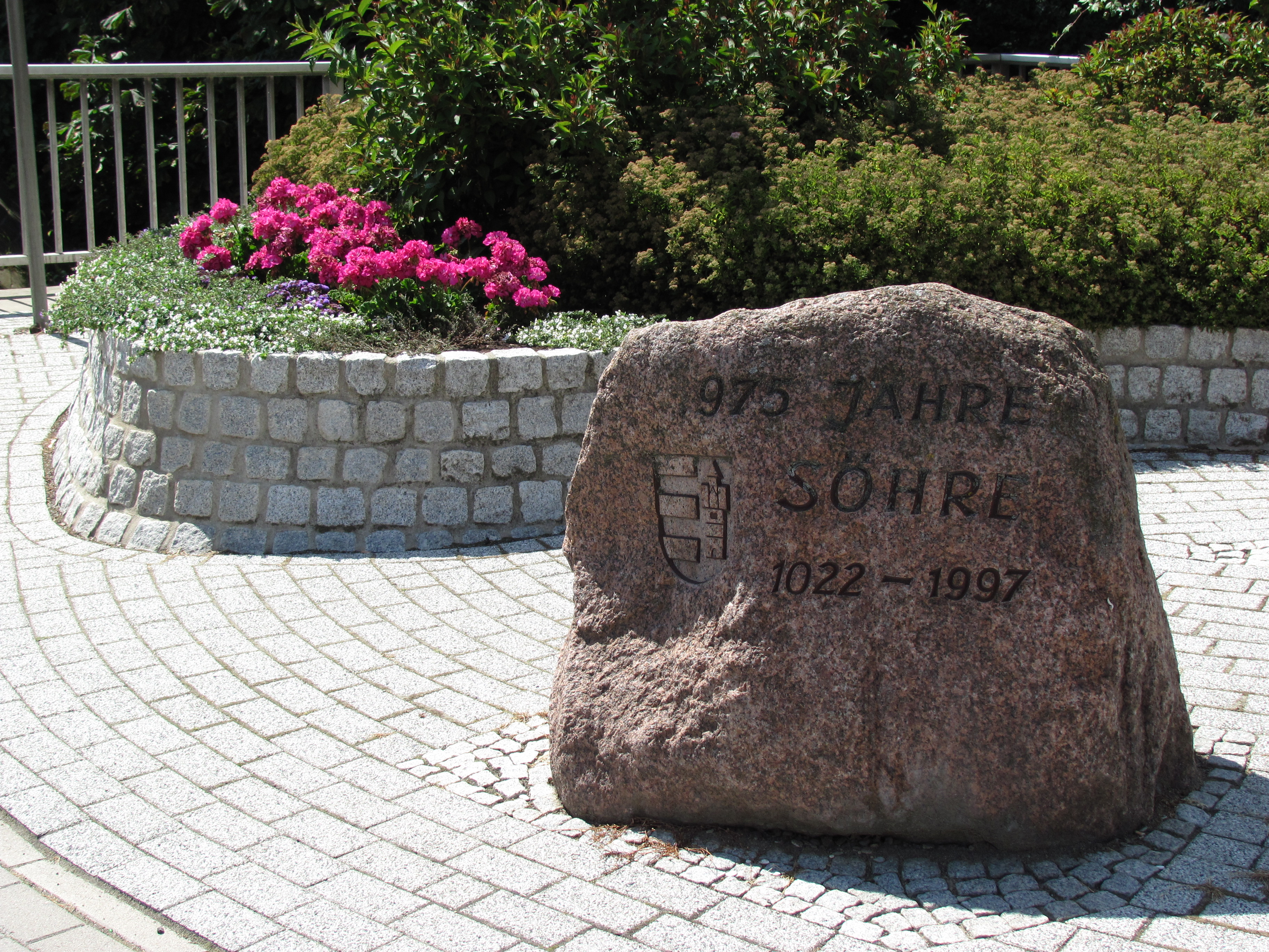 Memorial stone, Diekholzen-Söhre, Germany.